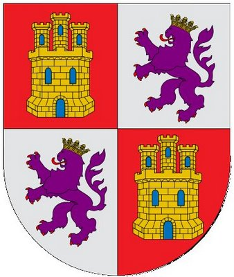 Arms of Crown of Castile